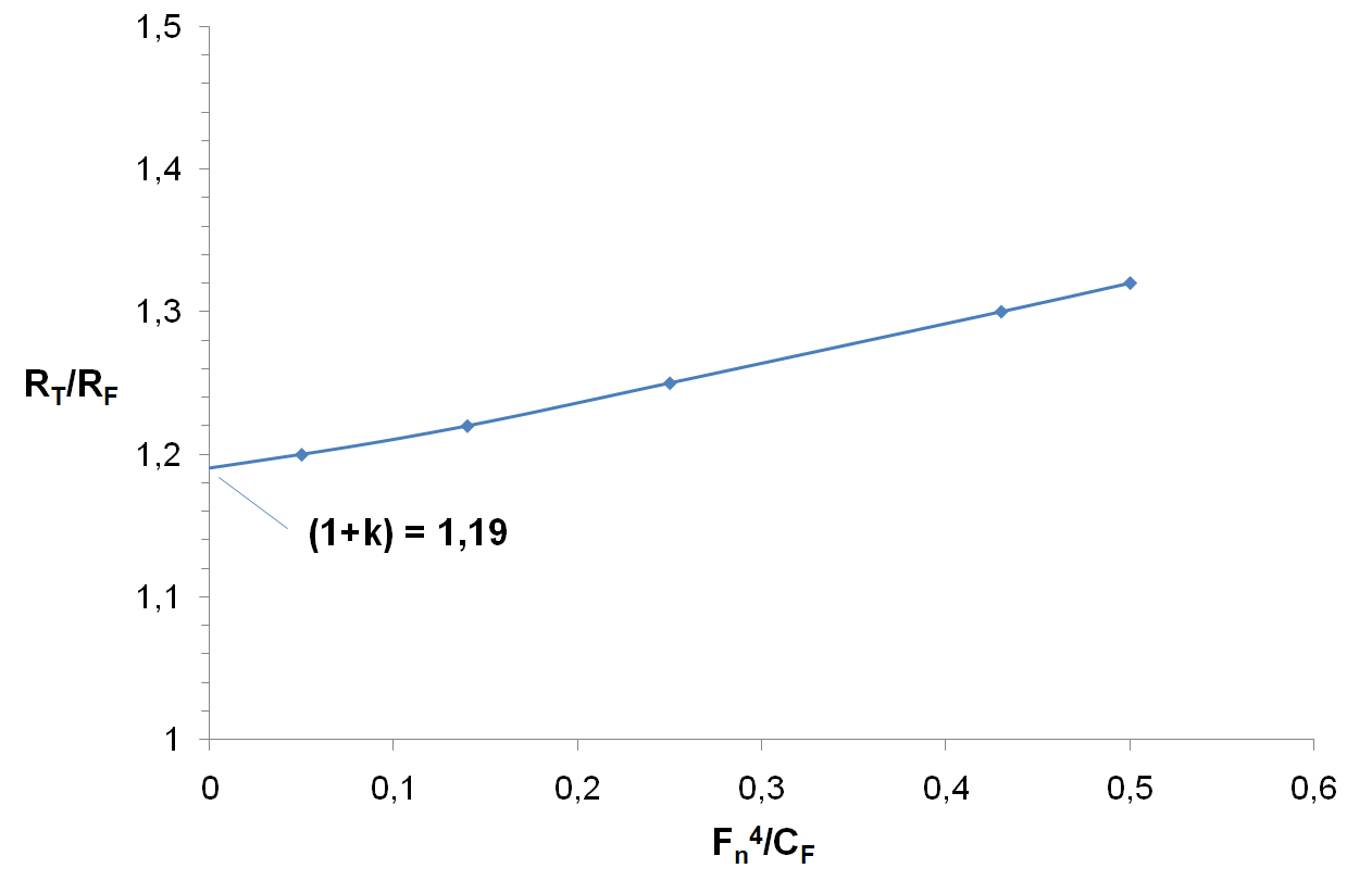 Prohaska plot wit form factor (1+k) at Fn of zero